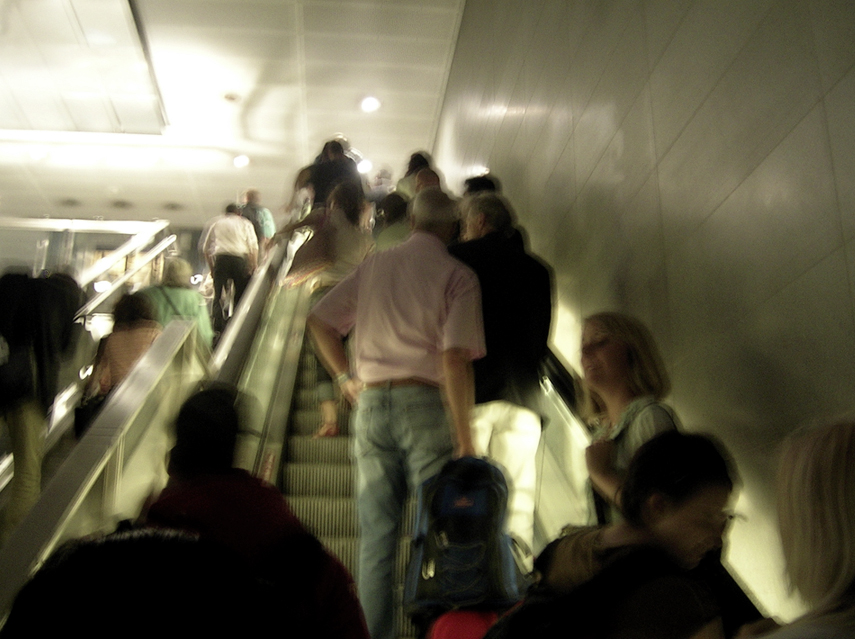 Rush hour, Nørreport station, Copenhagen, Denmark